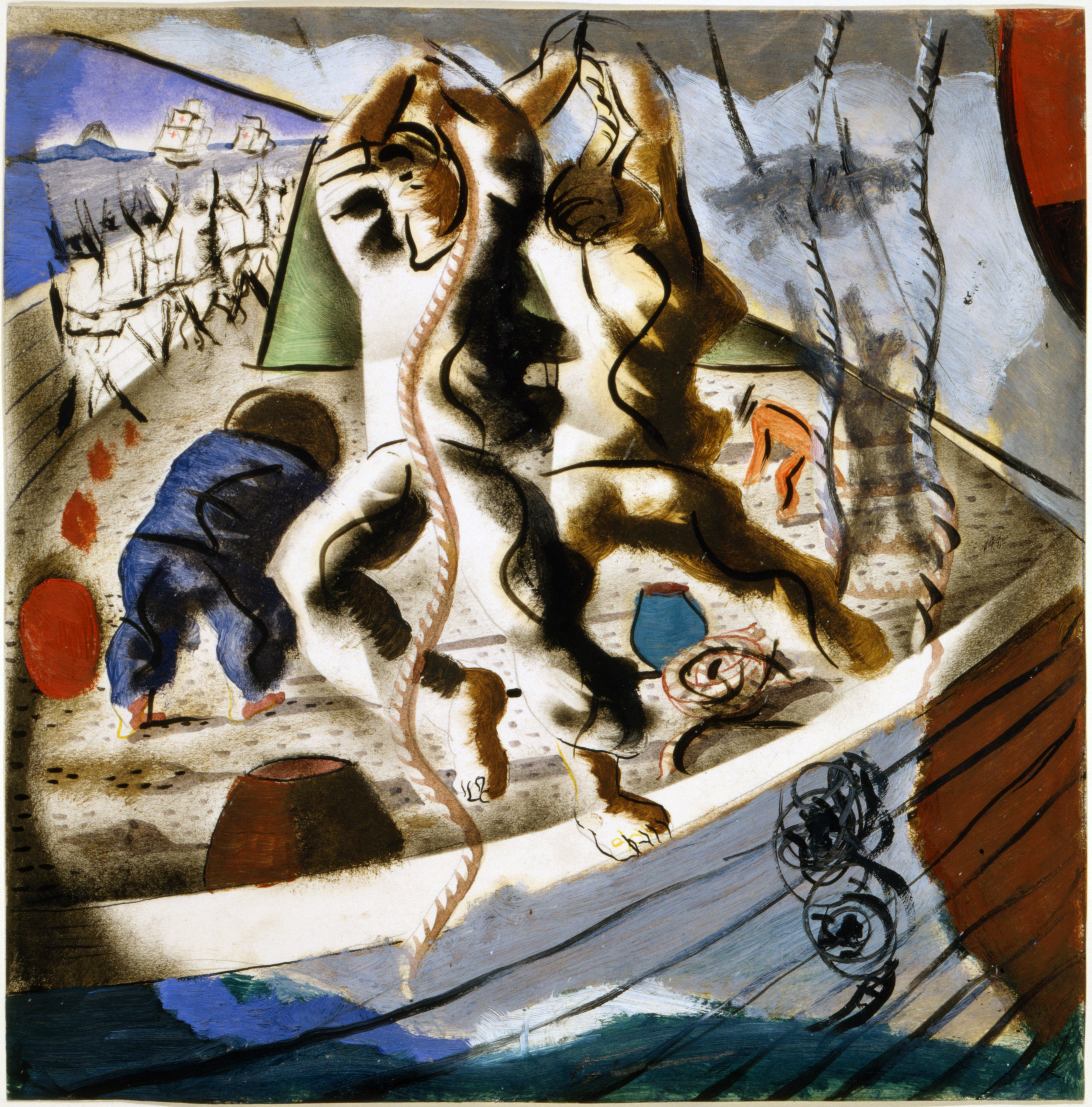 Preparatory drawing for "Discovery of the Land" mural, Hispanic Division, Library of Congress. The mural depicts the discovery of the Americas but without specifically representing either the Portuguese under Cabral who came to Brazil or the Spaniards under Columbus.[1]